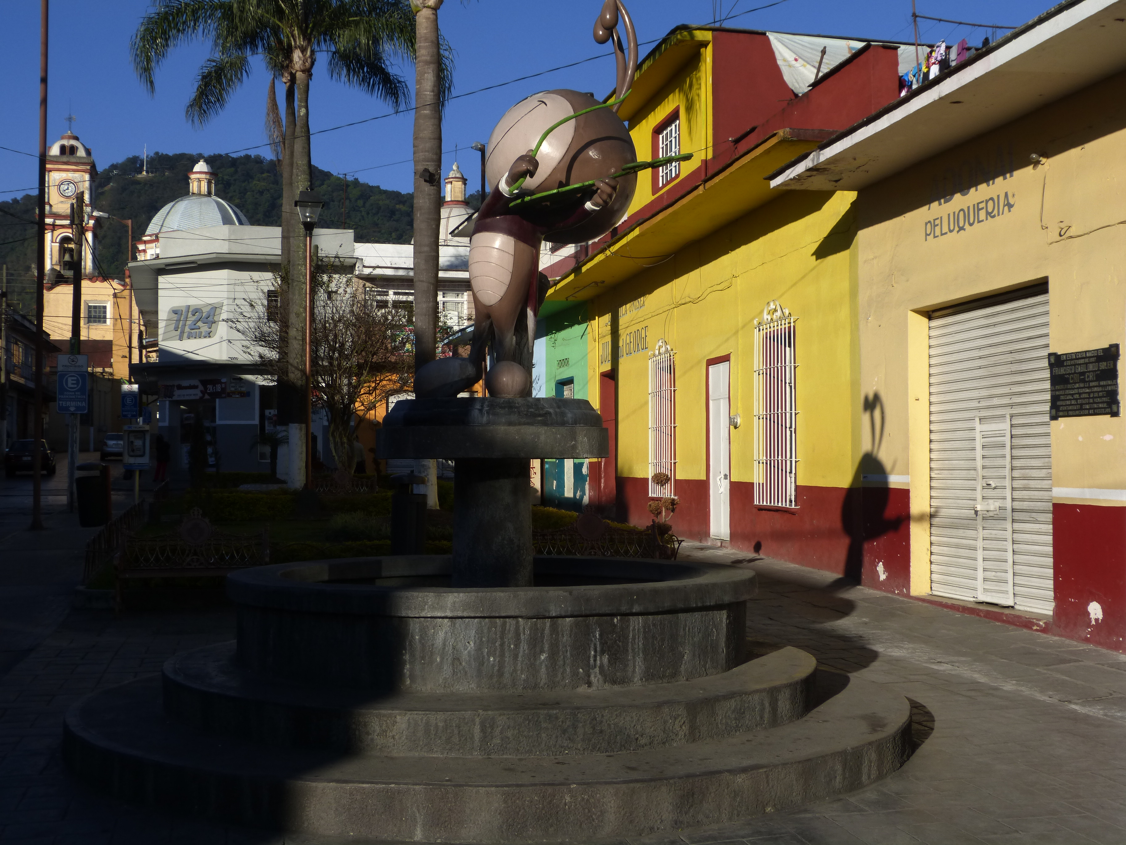 Cri Cri's (Francisco Gabilondo Soler) birthplace in Orizaba, Veracruz with a statue of the "grillo cantor" his most famous creation in front